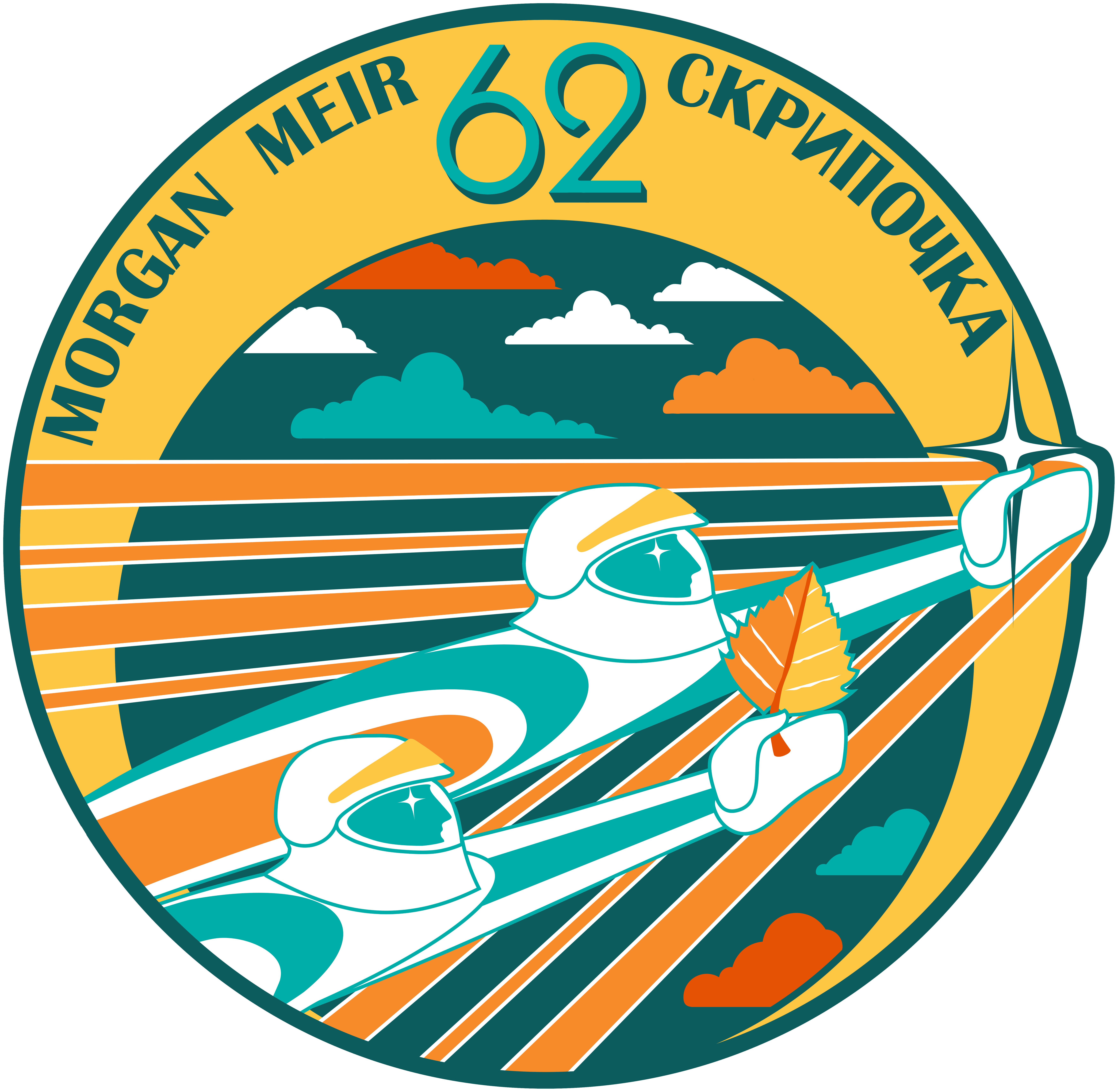 The official insignia of the Expedition 62 crew The Expedition 62 patch embodies two main themes: first, the importance of the global partnership on which the International Space Station was founded, and second, the paradigm shifting perspective provided by seeing our planet Earth from above with human eyes. Based on a vintage mosaic found near the headquarters of the Gagarin Cosmonaut Training Center, the two space explorers flying in formation represent friendship between space agencies and the people that work in them. The shining star in the hand is a symbol of unity under a common quest for discovery, as this partnership continues to burn bright into the future. Generated by the flying astronauts, the shock wave signifies the powerful impact of human space exploration and the scientific research conducted on the space station, strengthened when we work as a team, side by side with all of our international partners. The backdrop of the large sun behind our planet Earth reminds us that we are but a very small component of our solar system and our universe. The sun is also responsible for fueling life on Earth, sustaining the biosphere (symbolized by the leaf) surrounded by the precious, fragile atmosphere (represented by the clouds). This imagery reminds us of our duty to protect our home planet, to preserve our environment and to carry principles of responsible environmental stewardship with us as we explore the universe. This birch leaf combines the principal elements, embodying nature, science and the global alliance, as these trees are indigenous to regions that crewmembers from all sides call home.